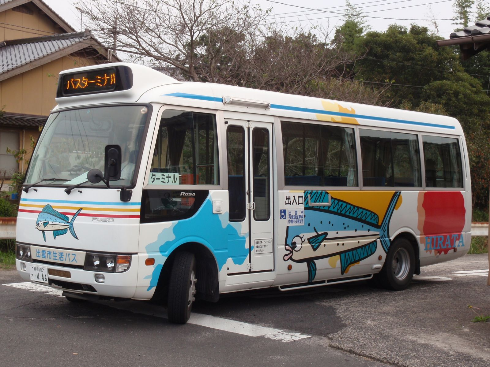 Hirata Seikatsu Bus at Shimokawabashi